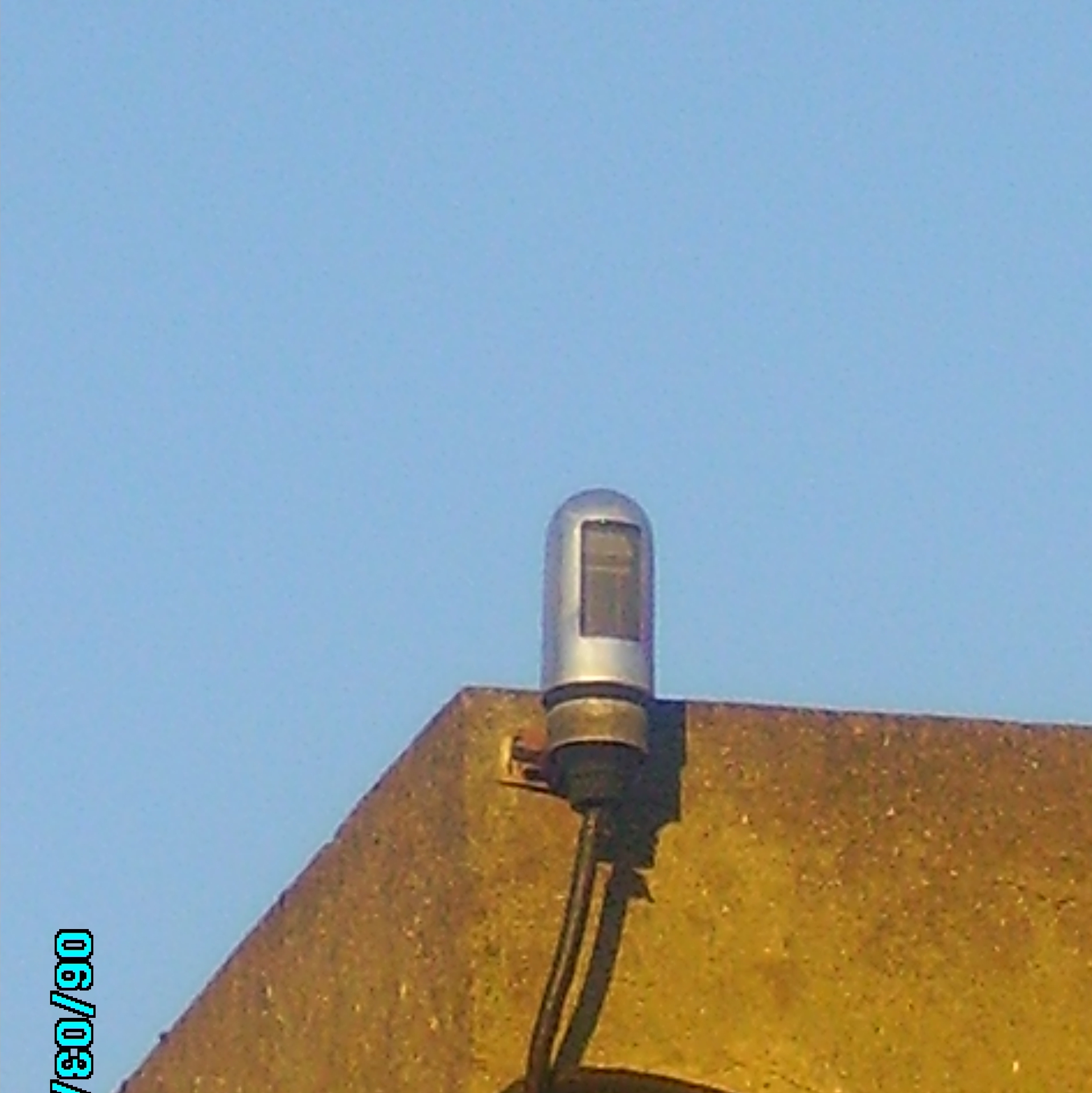 Twilight switch, probably the LUMANDAR model made by Honeywell